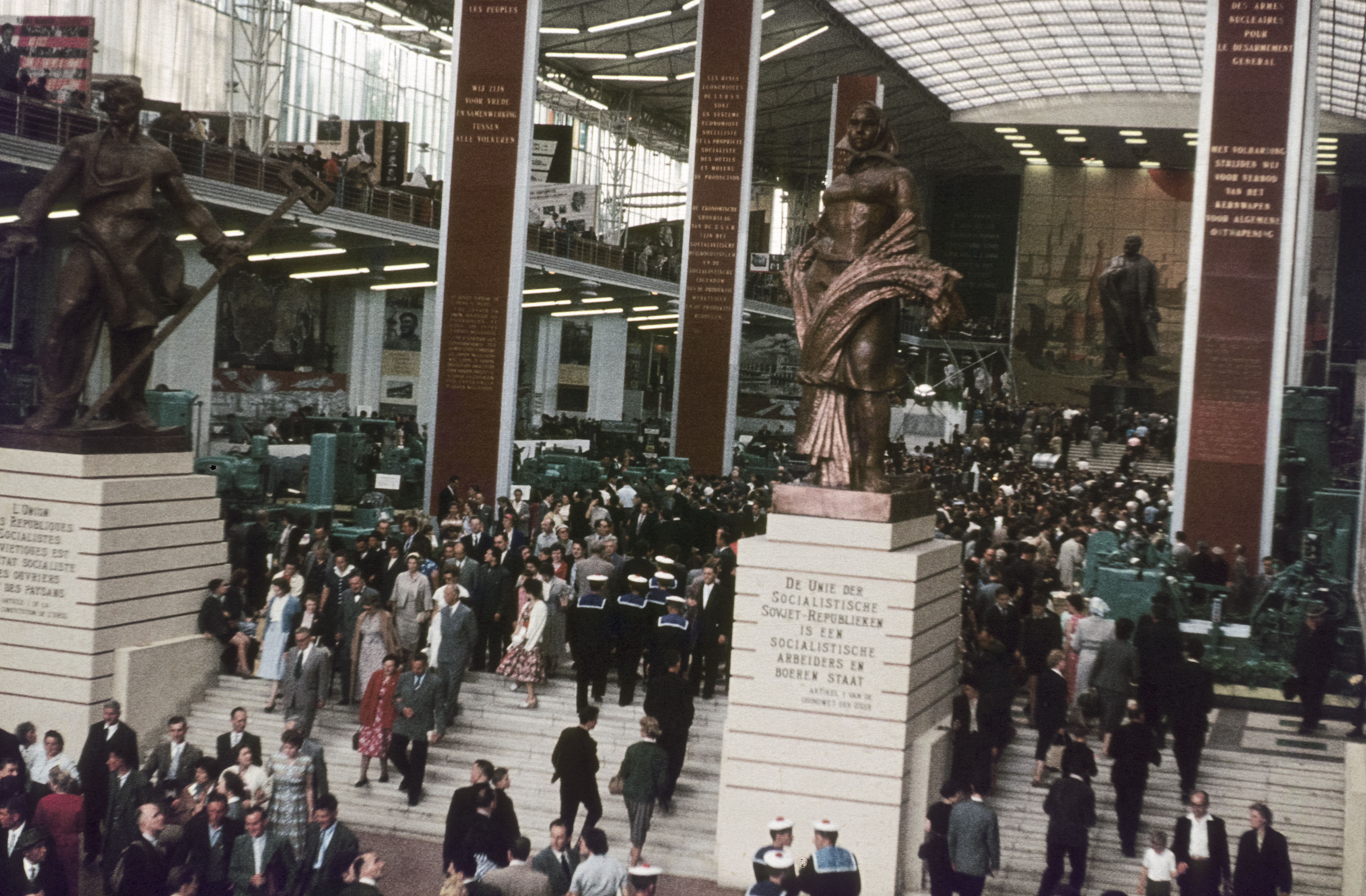 USSR Pavillon during the Expo 58